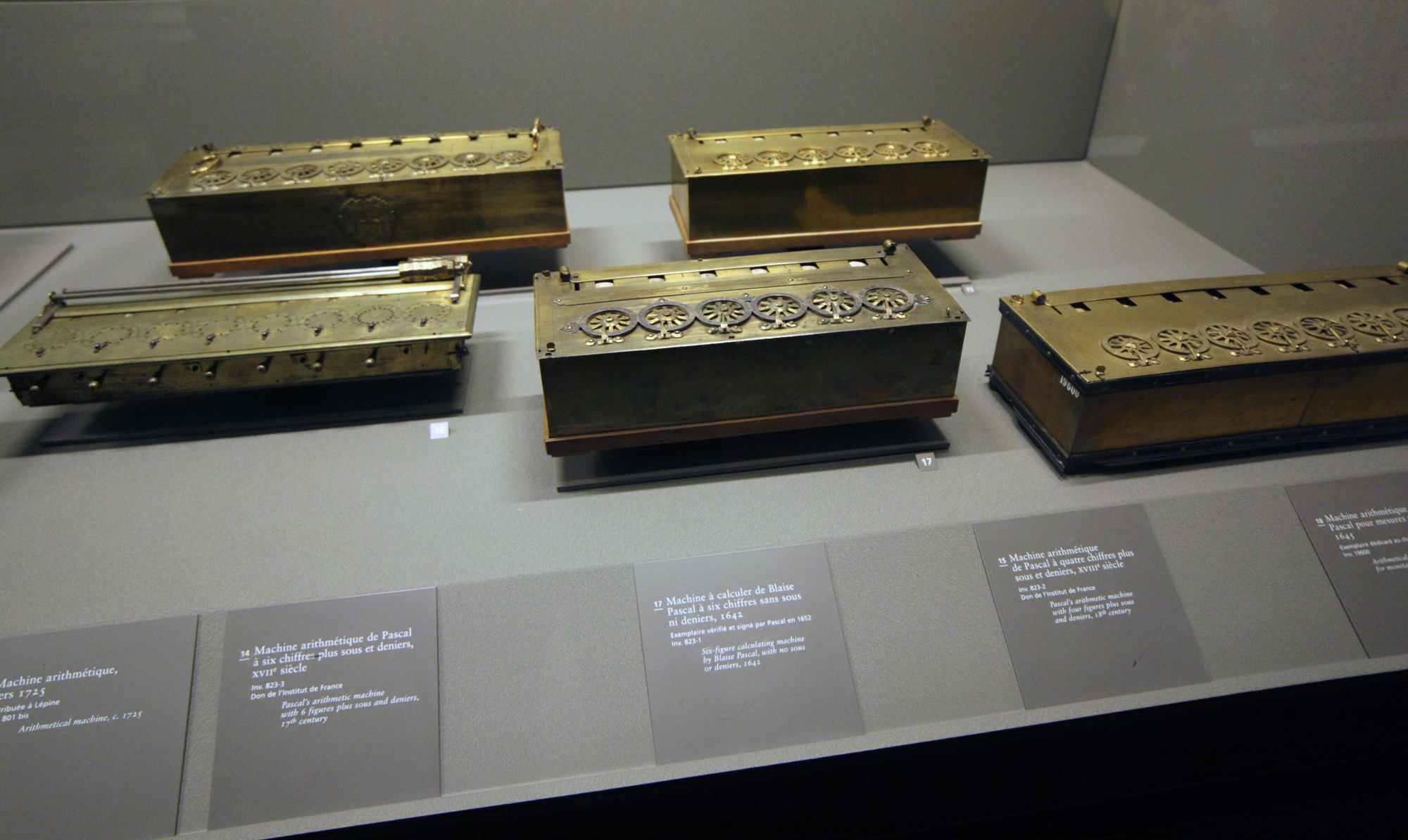 17th century mechanical calculators by Blais Pascale in the french Musée des Arts et Métiers, Paris